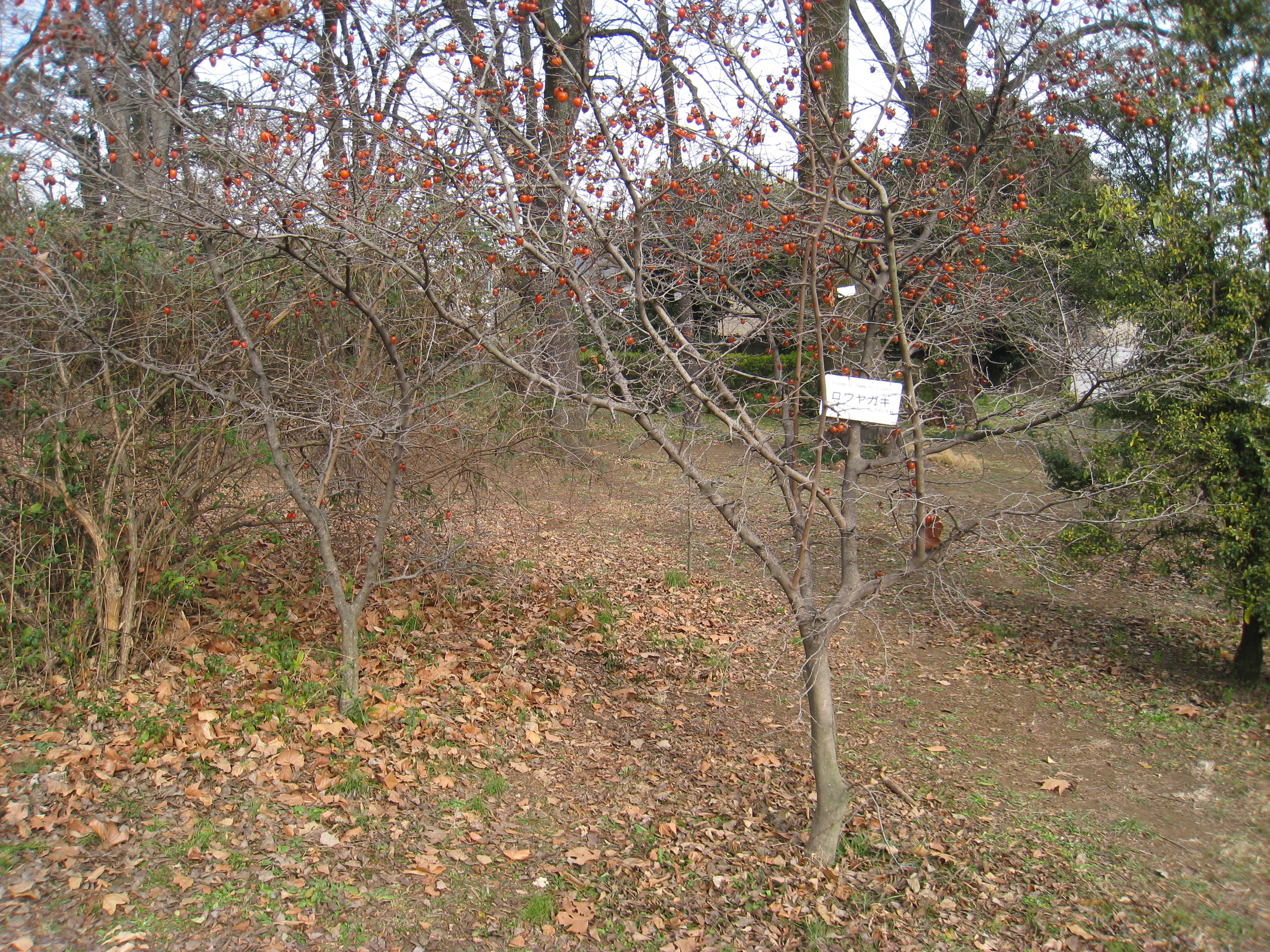 Diospyros rhombifolia in winter, Koishikawa Botanical Gardens, Tokyo, Japan.